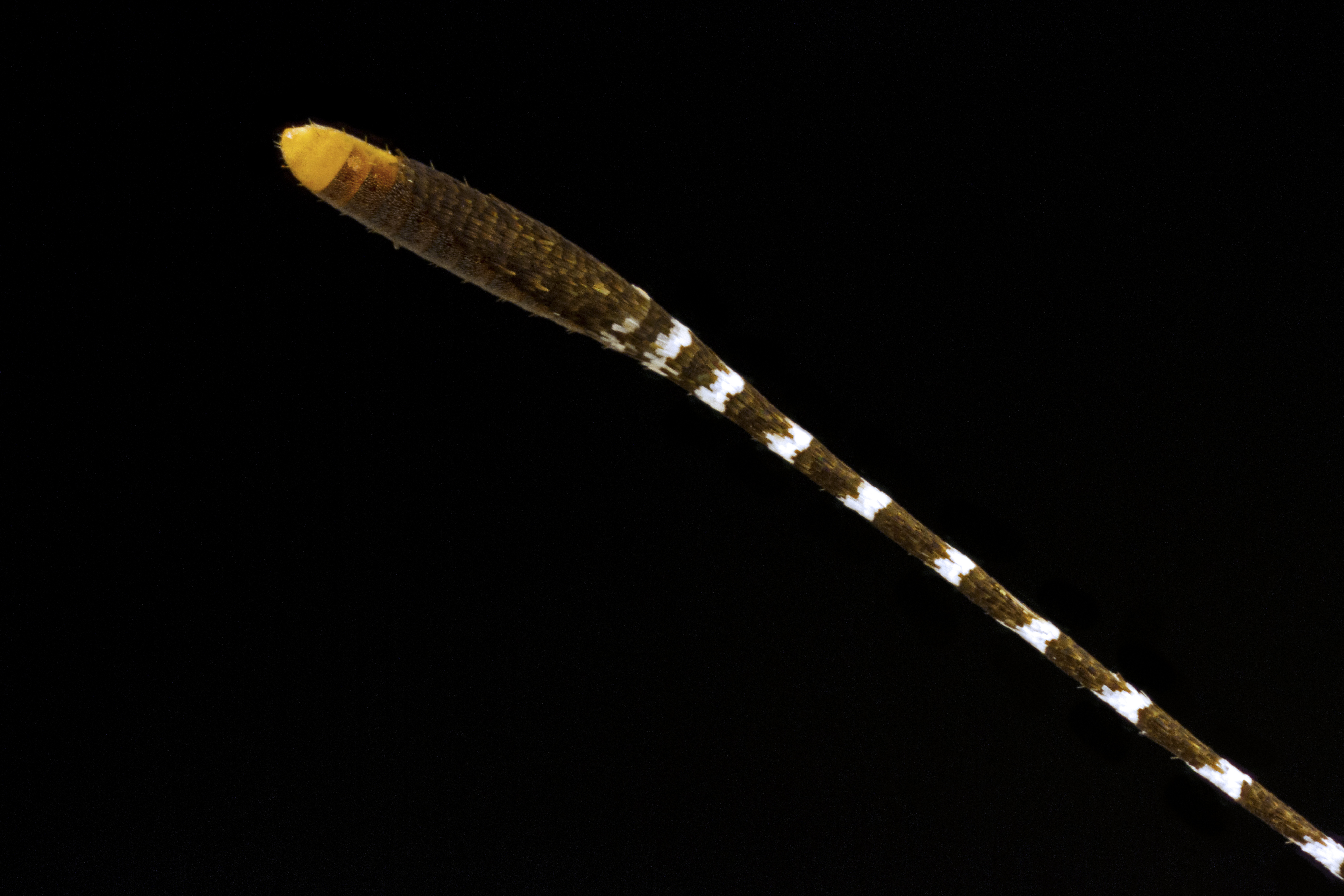 Specimen data: TX Travis Co. .8 mi N Shoal Creek. Colr C.J.Durden, 18.v.1969.